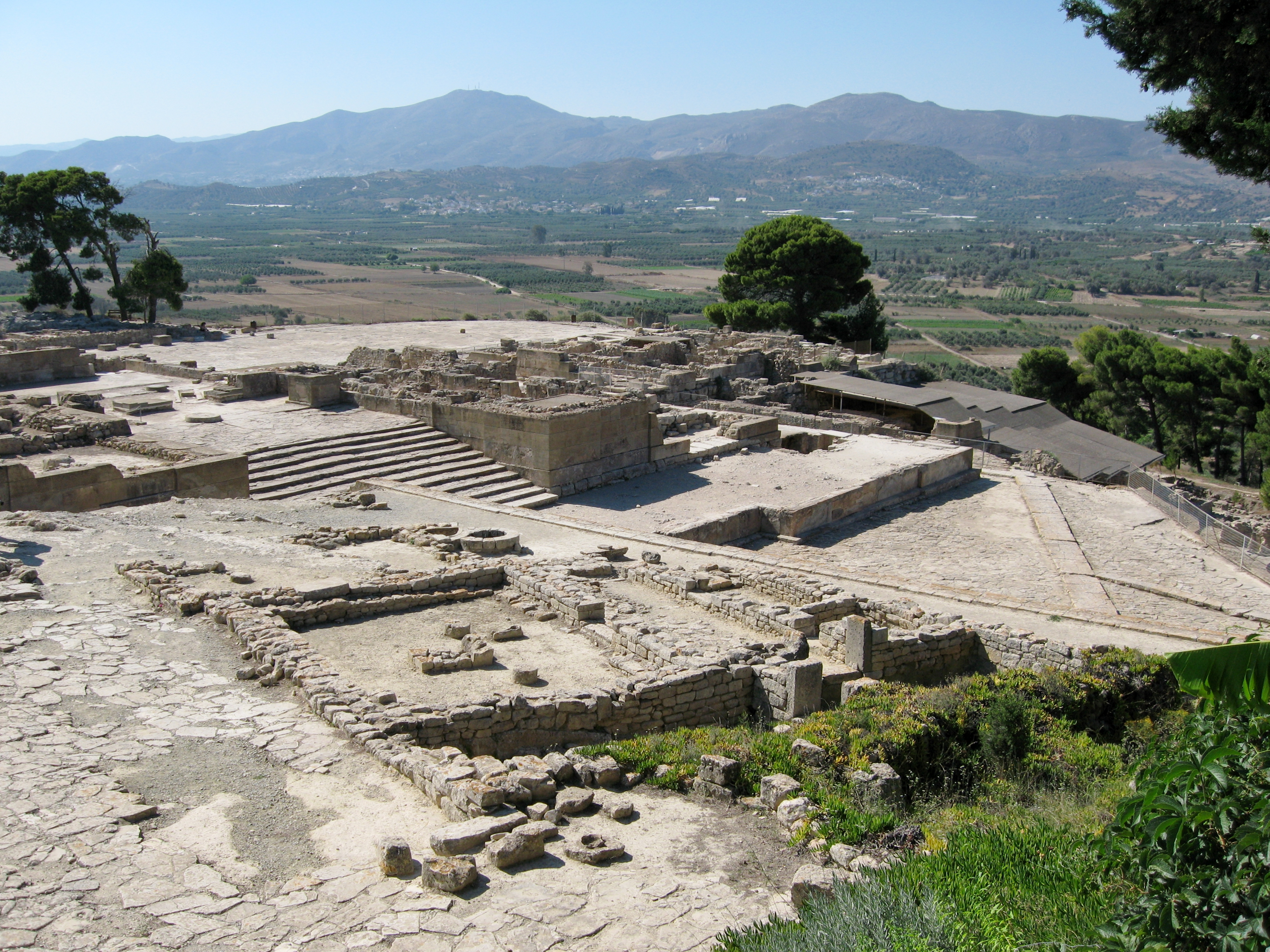 Ruins of Phaistos (Φαιστός), Municipality of Festos, Crete, Greece